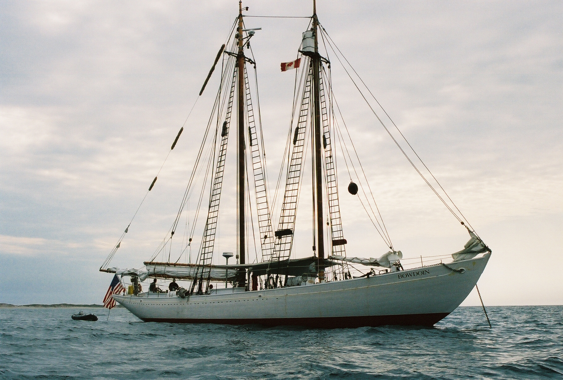 Taken by Dylan Clark